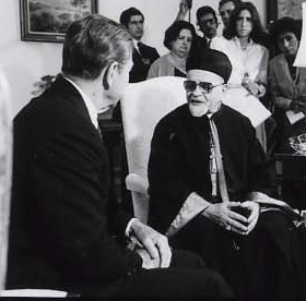 Anthony Peter Khoraish visits with Ronald Reagan in 1981 in Oval Office